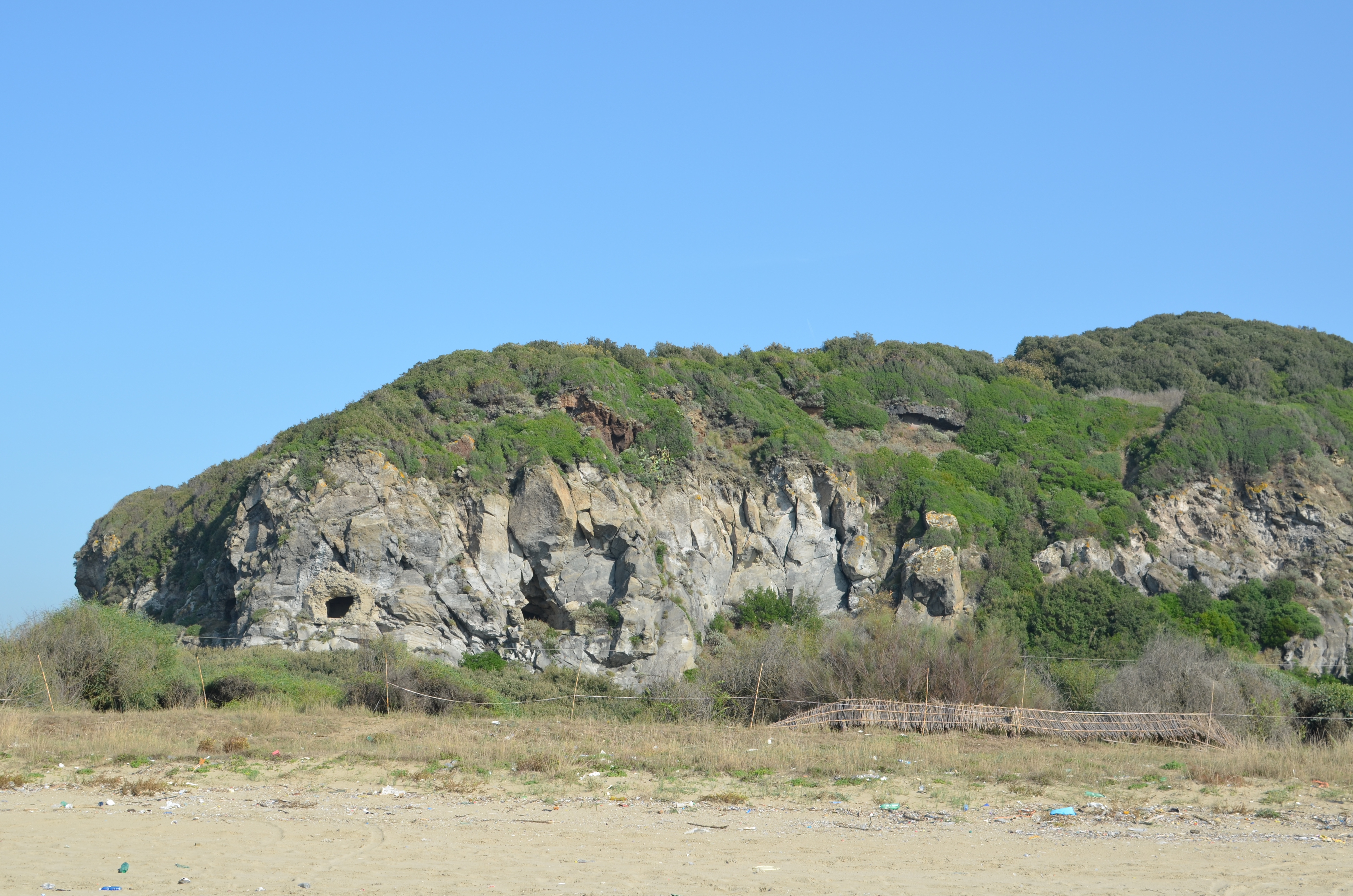 The northern side of the acropolis of Cumae seen from the beach to the west. A hole is visible in the rock, which might indicate that a gun was placed there during the Second World War.